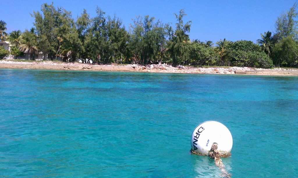 Cayo Lobos, Fajardo, seen from Cabezas, Fajardo